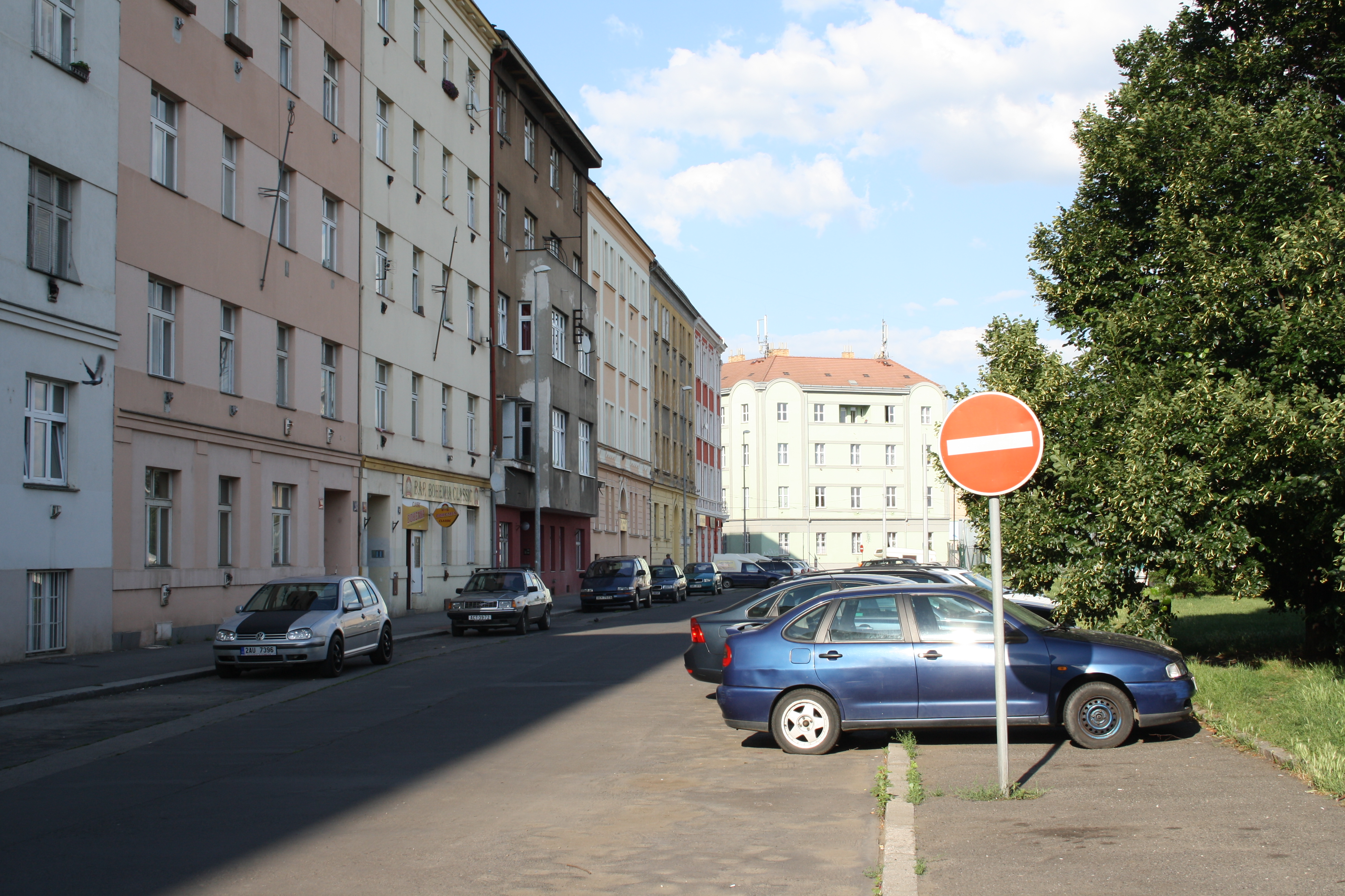 Kandertova, Praha - Libeň, from Lindnerova to Zenklova